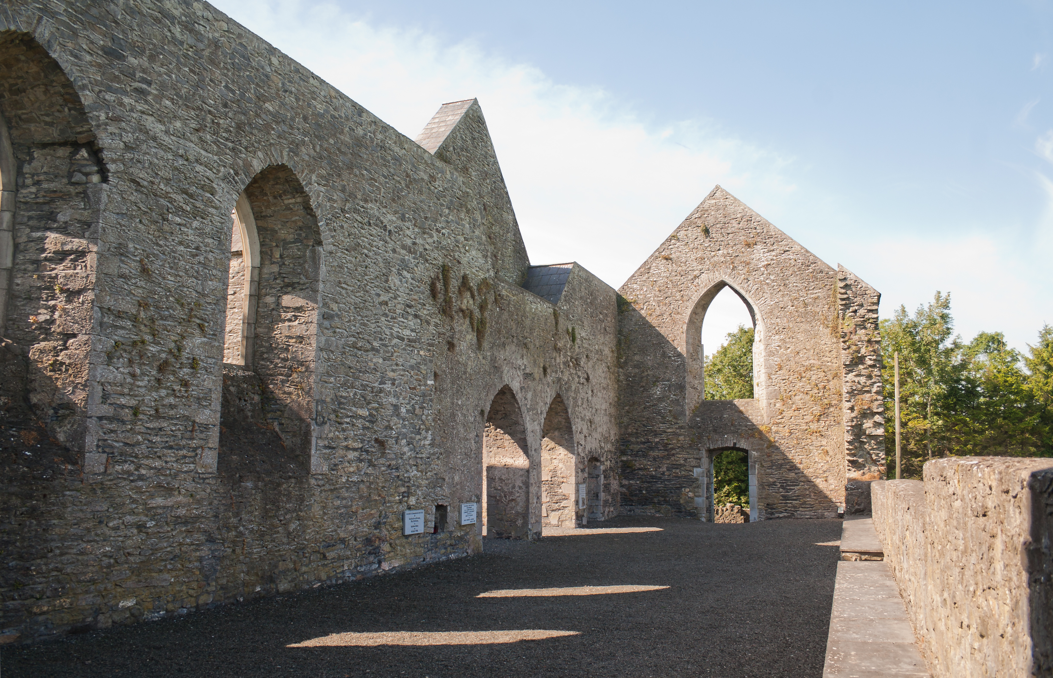 Nave of the Dominican Priory of St. Canice in Aghaboe, looking west.